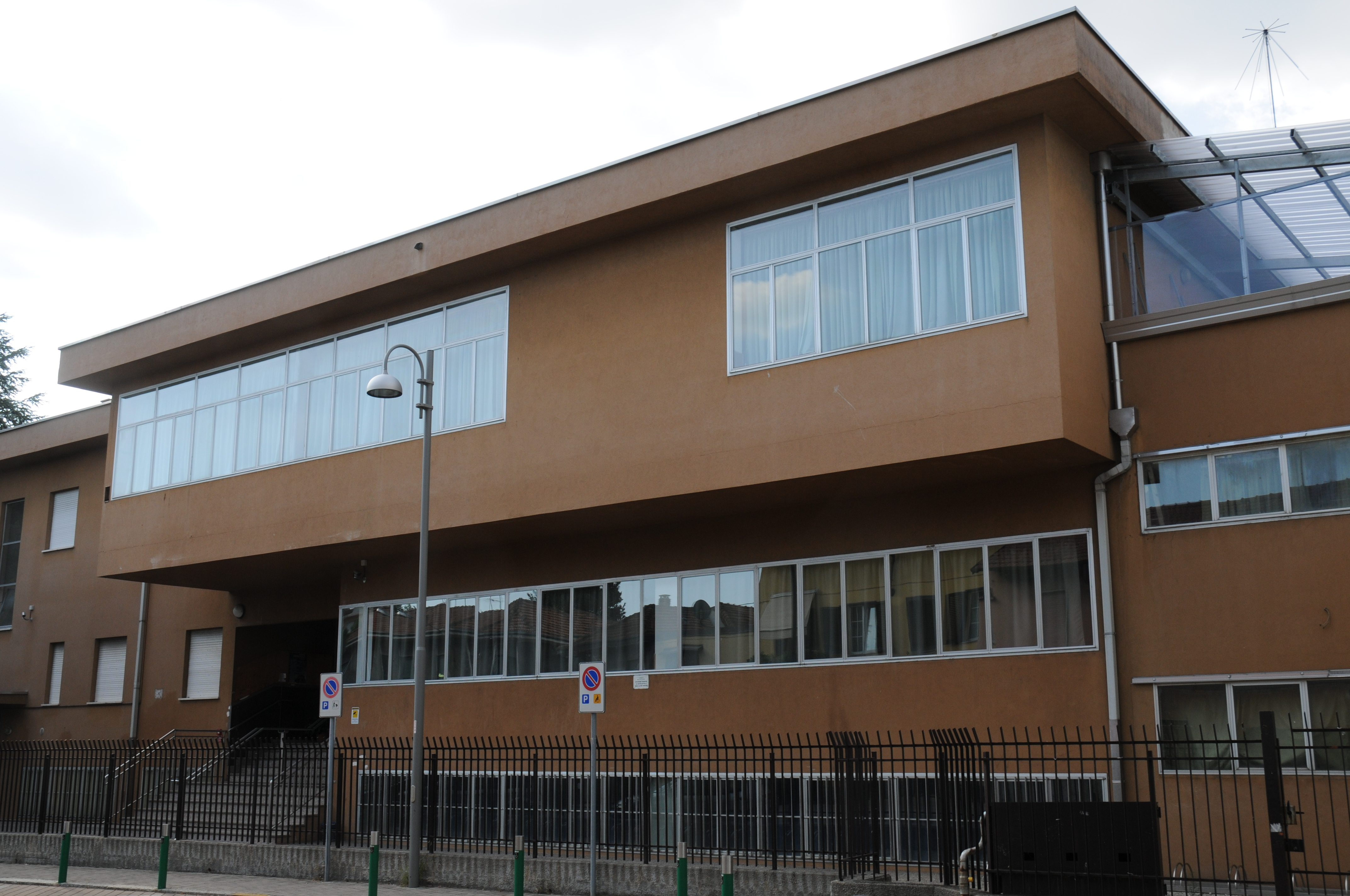 Parish center in San Giorgio su Legnano (Italy)